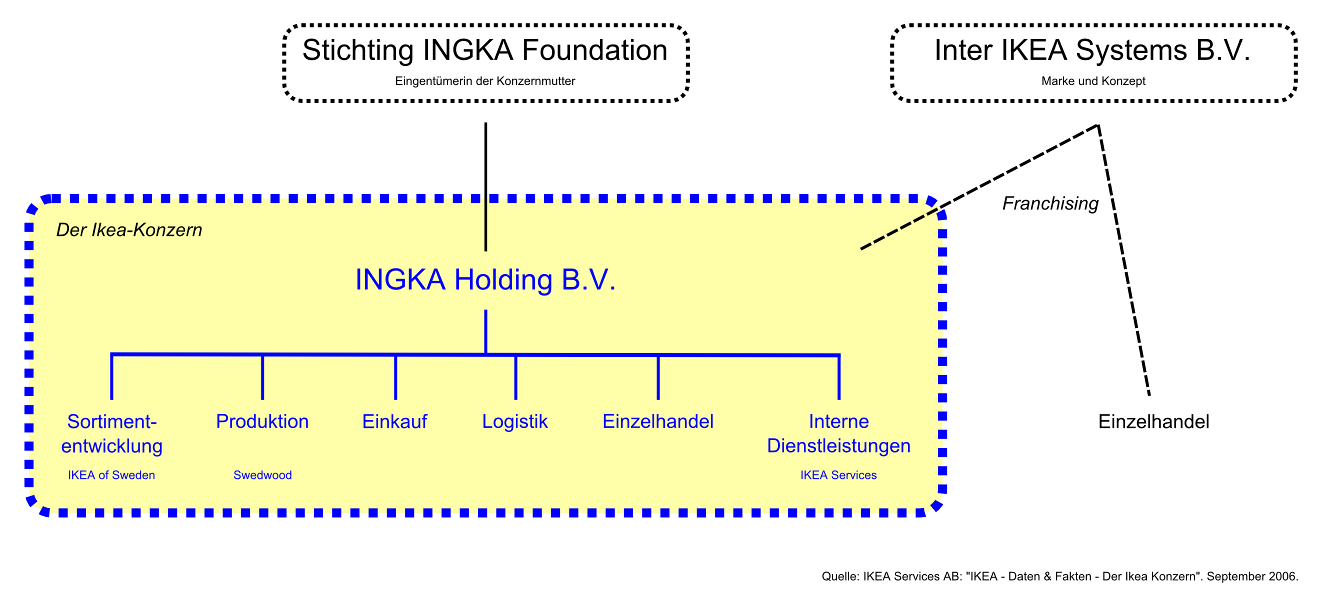 Structure of the IKEA business (German)